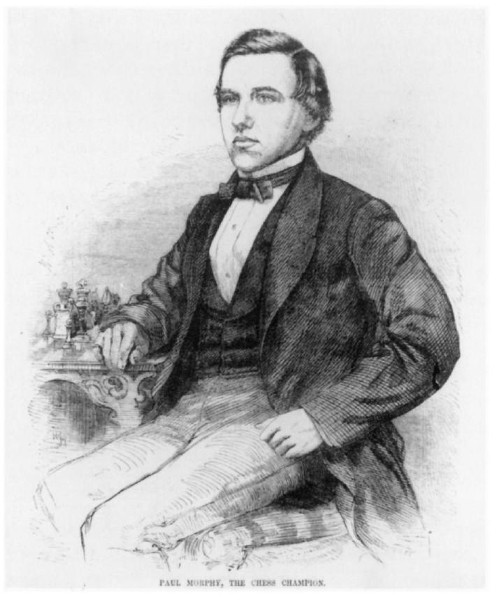 Paul Morphy picture